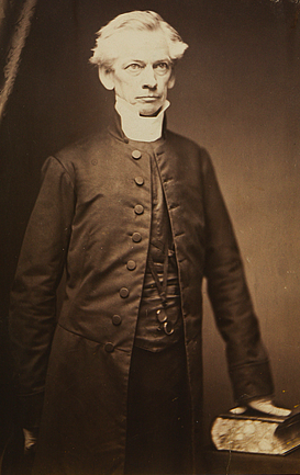 Bishop Alonzo Potter (1800-1865)